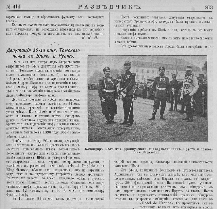 "Razvedchik" (Scout) magazine No. 414 p.813 (1898)